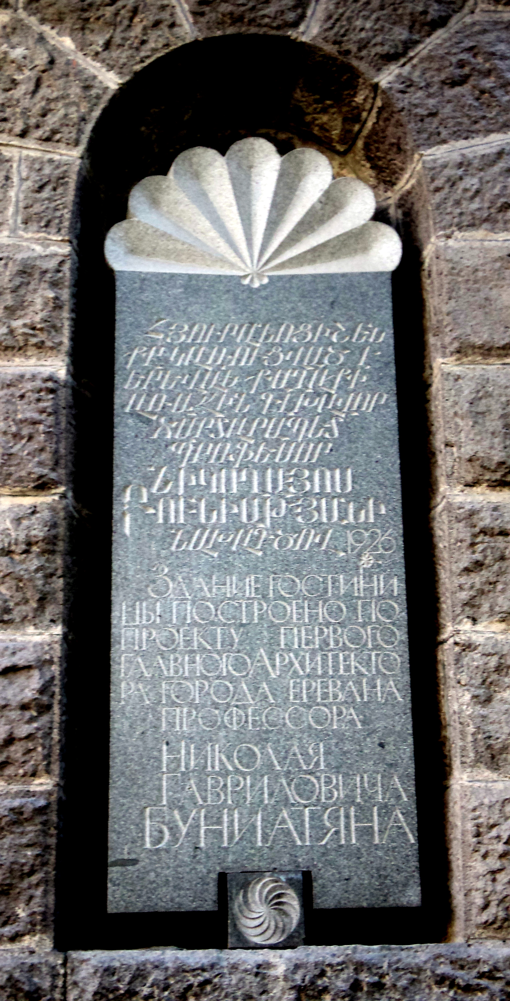 Հուշատախտակ Նիկողայոս Բունիաթյանի նախագծով Երևանի Աբովյան փողոցում կացուցված հյուրանոցի («Ռոյալ Թյուլիփ-Երևան») շենքի պատին